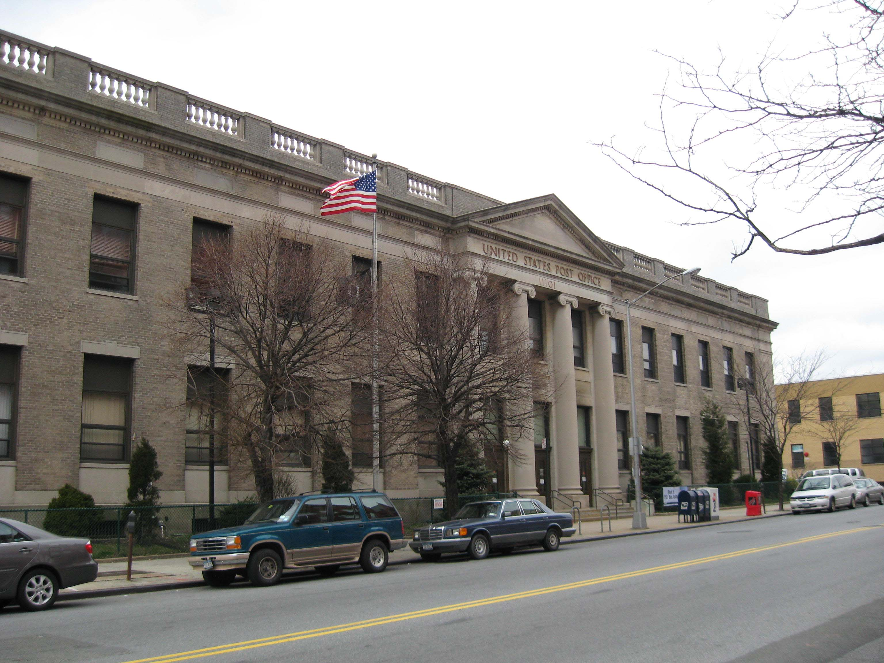 Long Island City Post Office. I stood on the east side of 21st Street on a cloudy early afternoon in early spring to take this photo